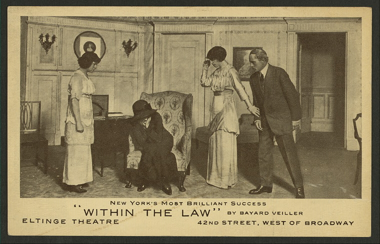 An advertisement for Within the Law at the Eltinge Theatre in New York City.